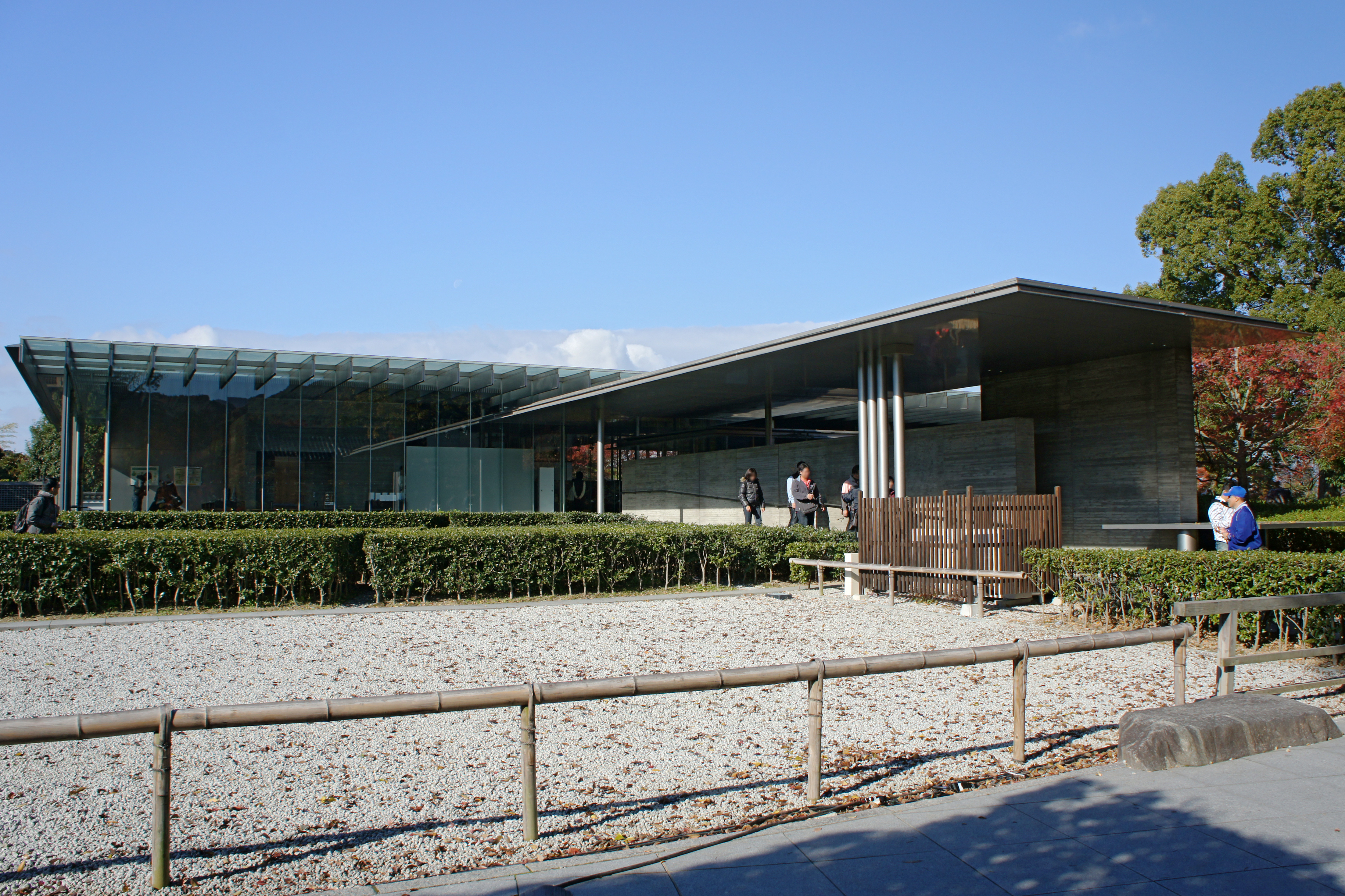 Byōdō-in Museum "Hoshokan" in Uji, Kyoto prefecture, Japan.